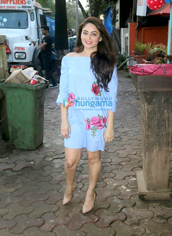 Mahhi Vij snapped at the birthday party of Hakim Aalim’s son.